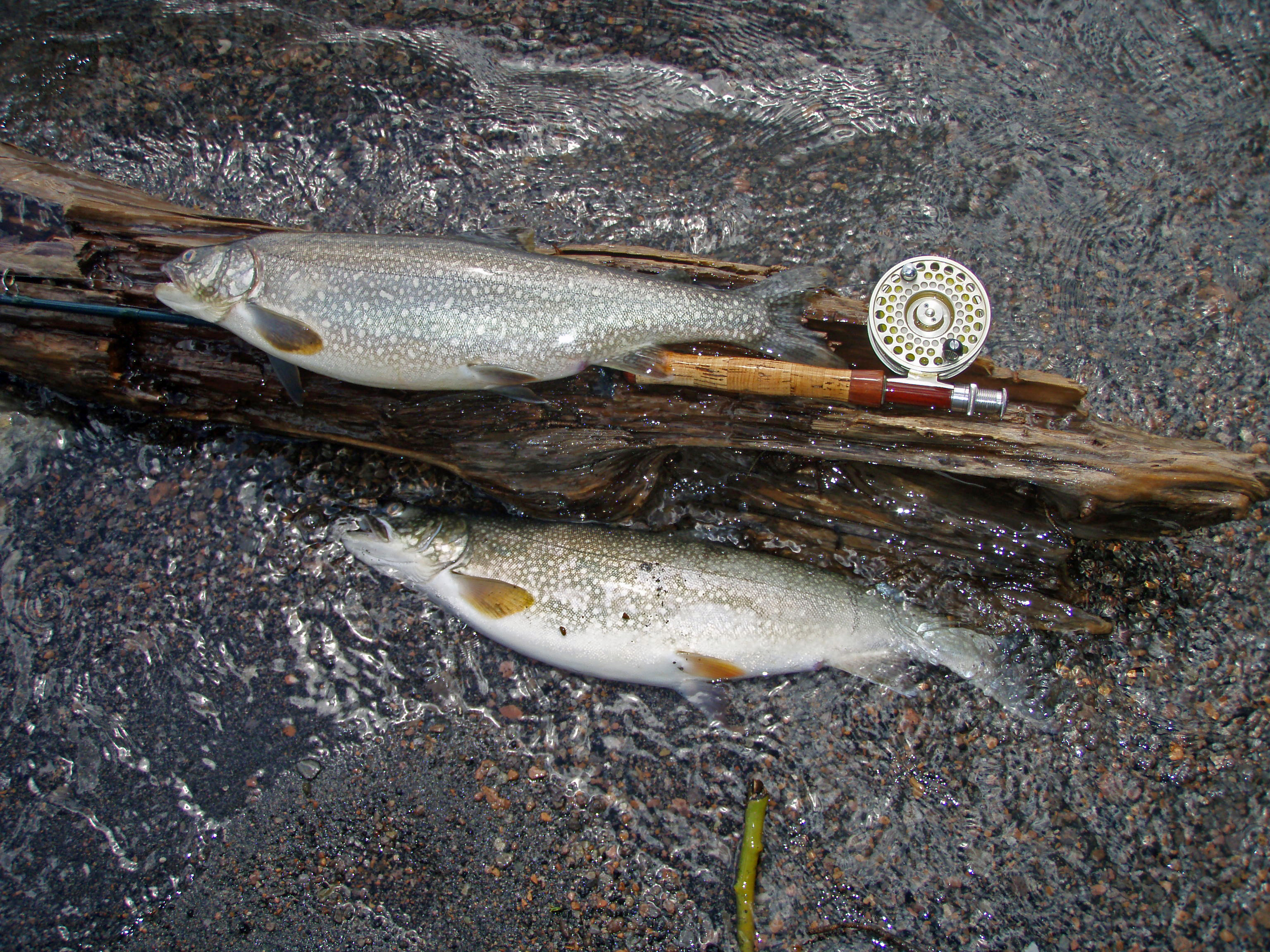 Lake Trout from West Thumb, Yellowstone Lake, Yellowstone National Park, WY